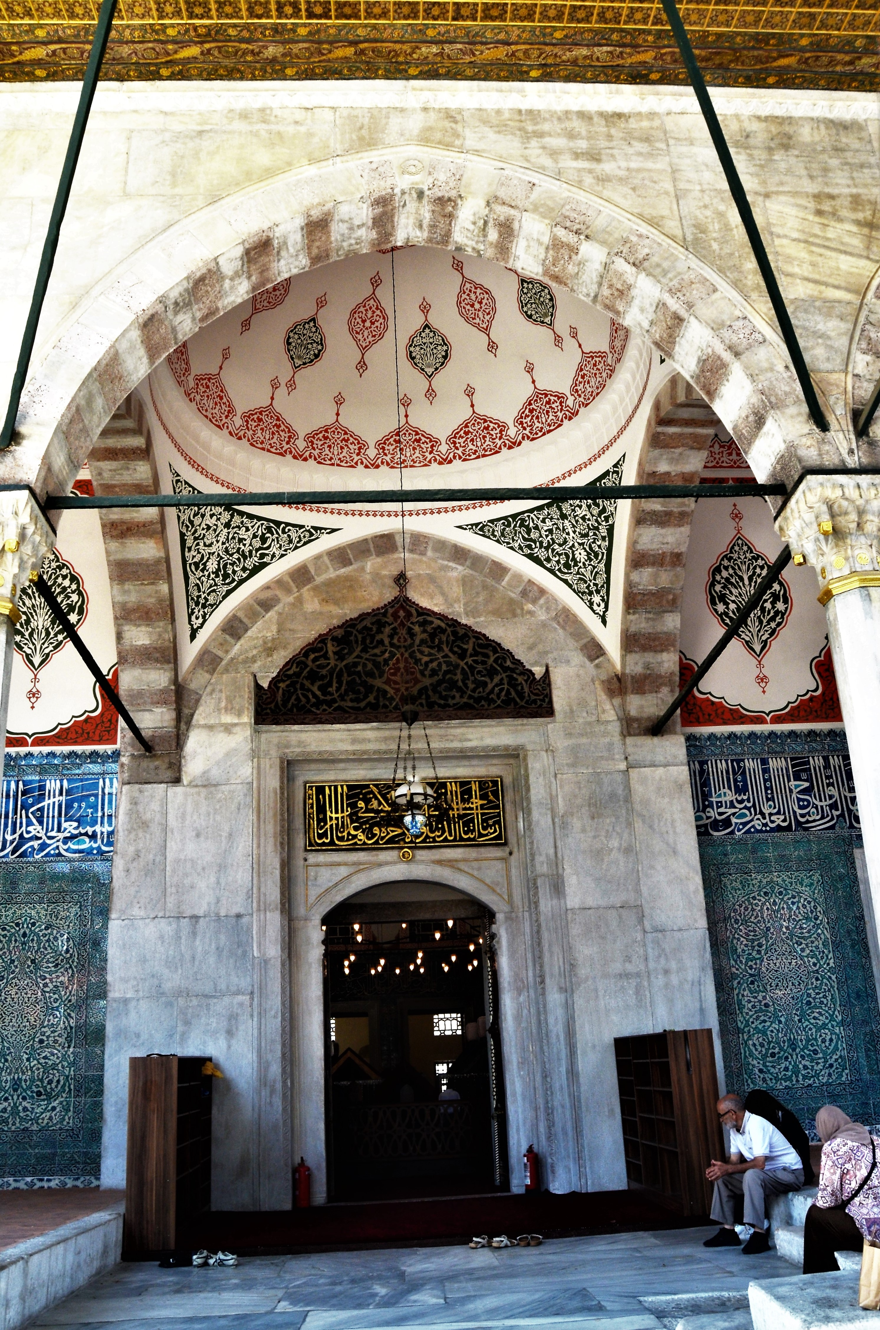 Entrance of Mausoleum of Turhan Hatice Sultan in Fatih, Istanbul.